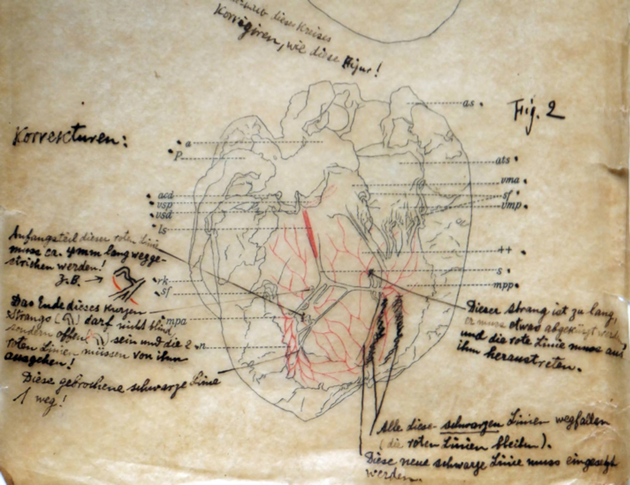 Proof sheet of Tawara Sunao’s book about the atrioventricular conduction system of the heart: 『Das Reizleitungssystem des Säugetierherzens. Eine Anatomisch-Histologische Studie über das Atrioventrikularbündel und die Purkinjeschen Fäden』(1906). Displayed in the Oe Medical Archive, Nakatsu-City, Japan.